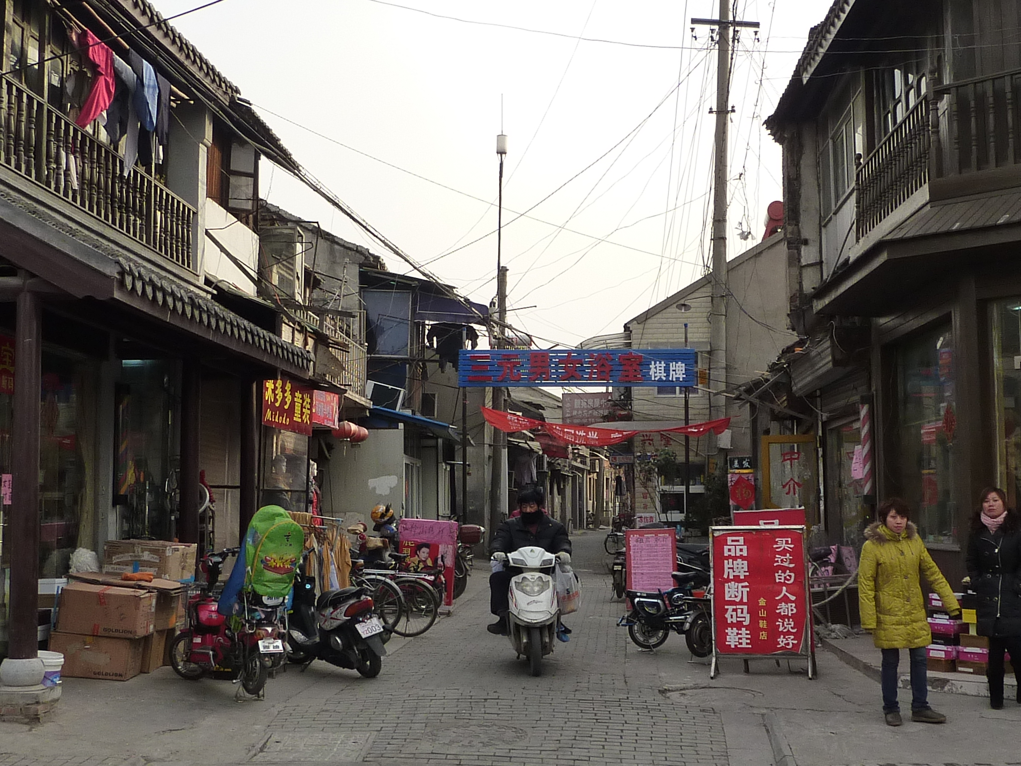 A side lane opening from the north into Ganquan Road, Yangzhou